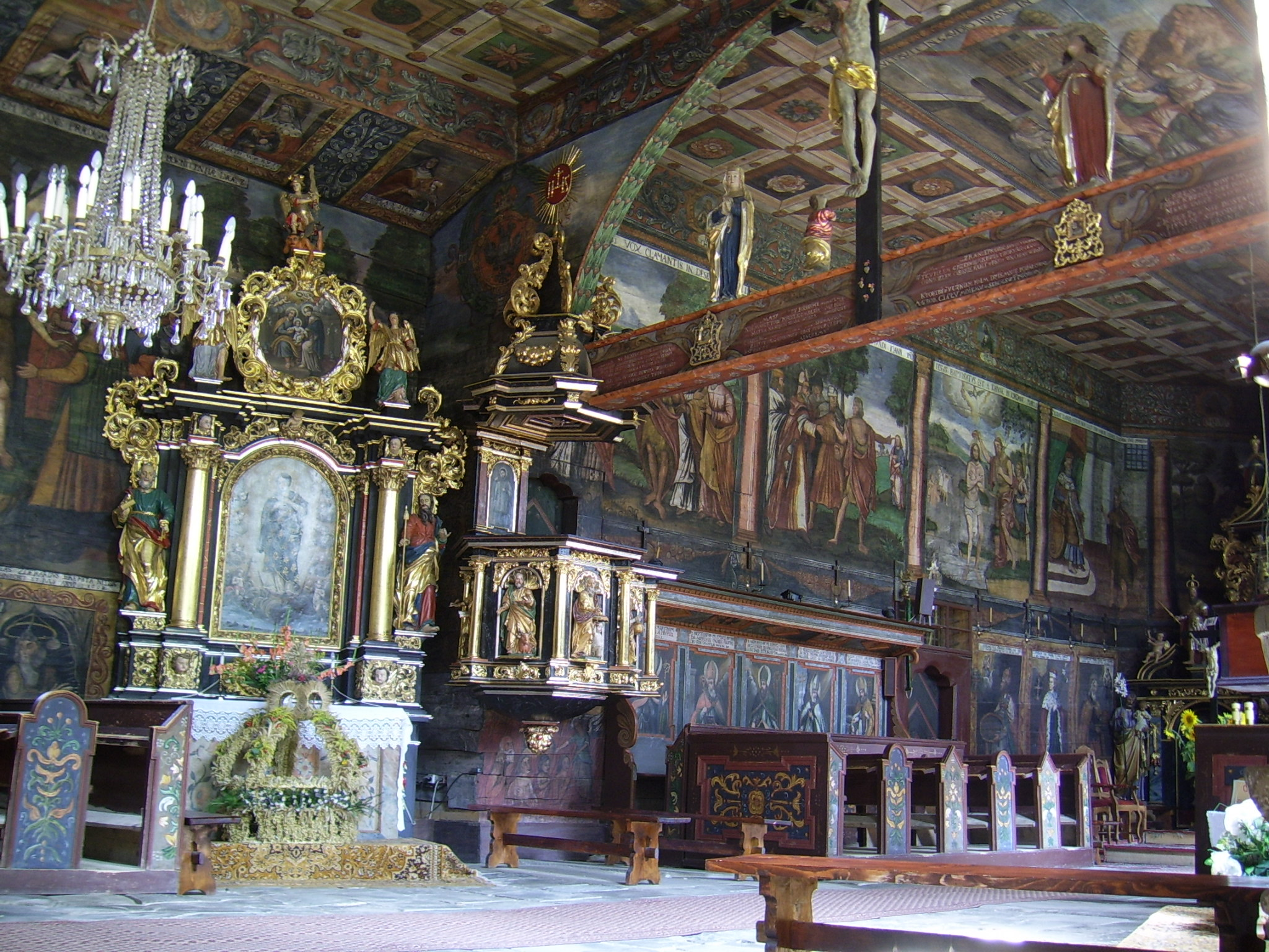 Wooden Church of John the Baptist in Orawka, Poland, from c. 1750